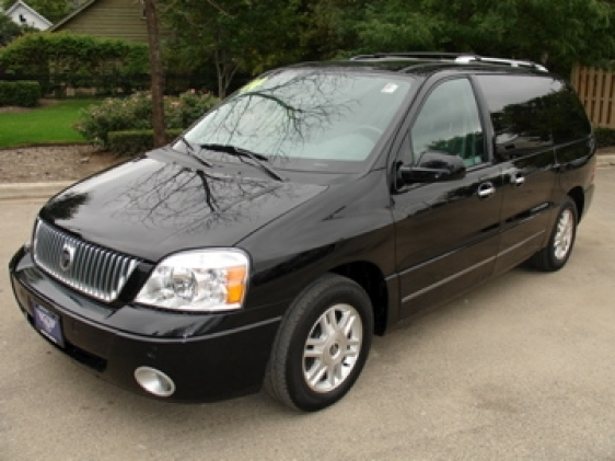 Black Mercury Monterey from Lot